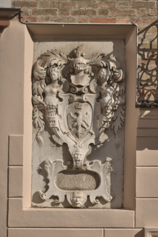 Coat of arm of family Martinengo on Torre Pretoria in Crema (Italy)